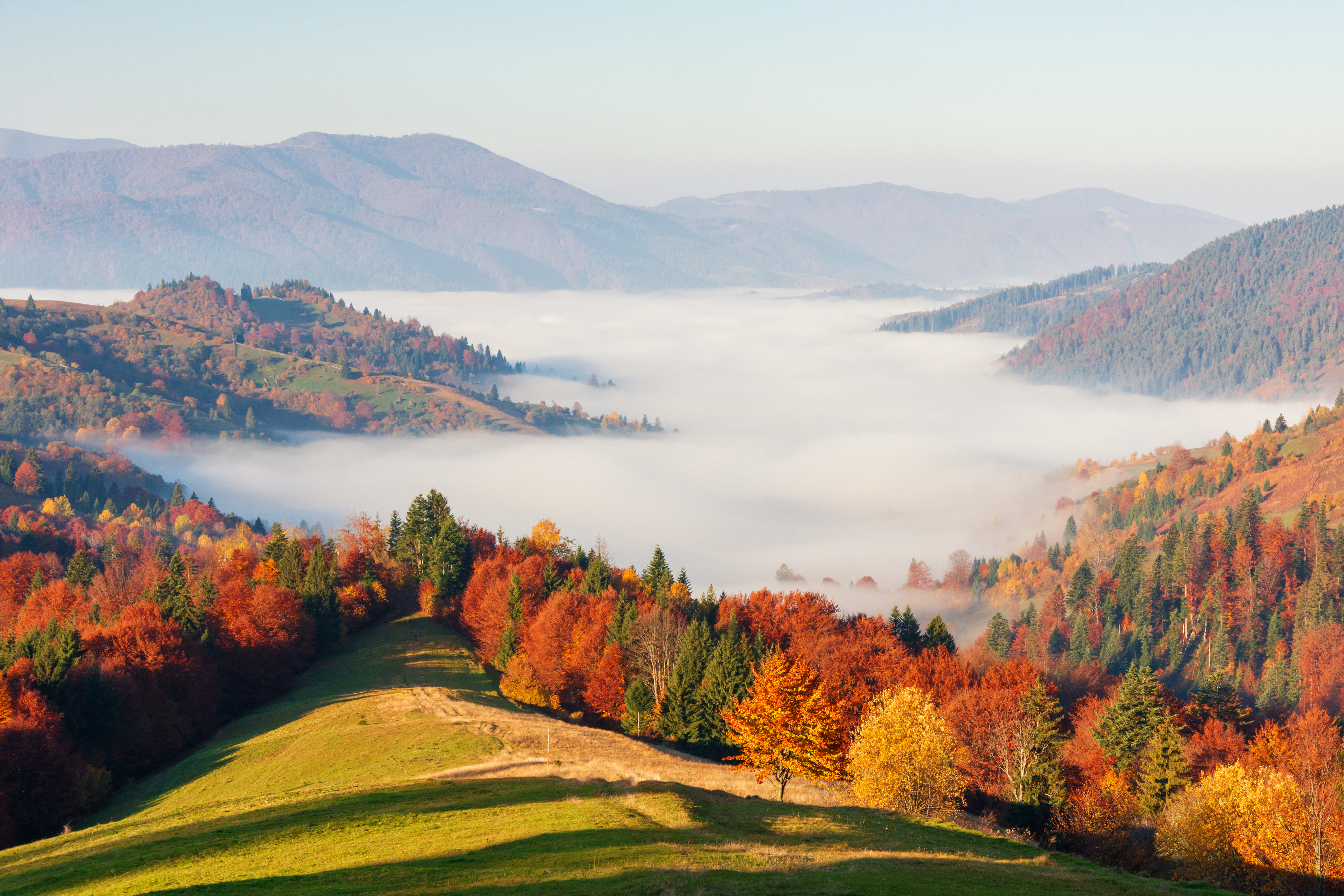 National Nature Park Synevyr, Ukraine